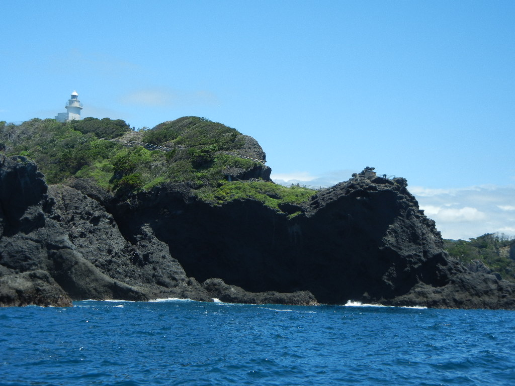 Cape Iro with Irozaki lighthouse in Minamiizu, Shizuoka Prefecture, Japan.